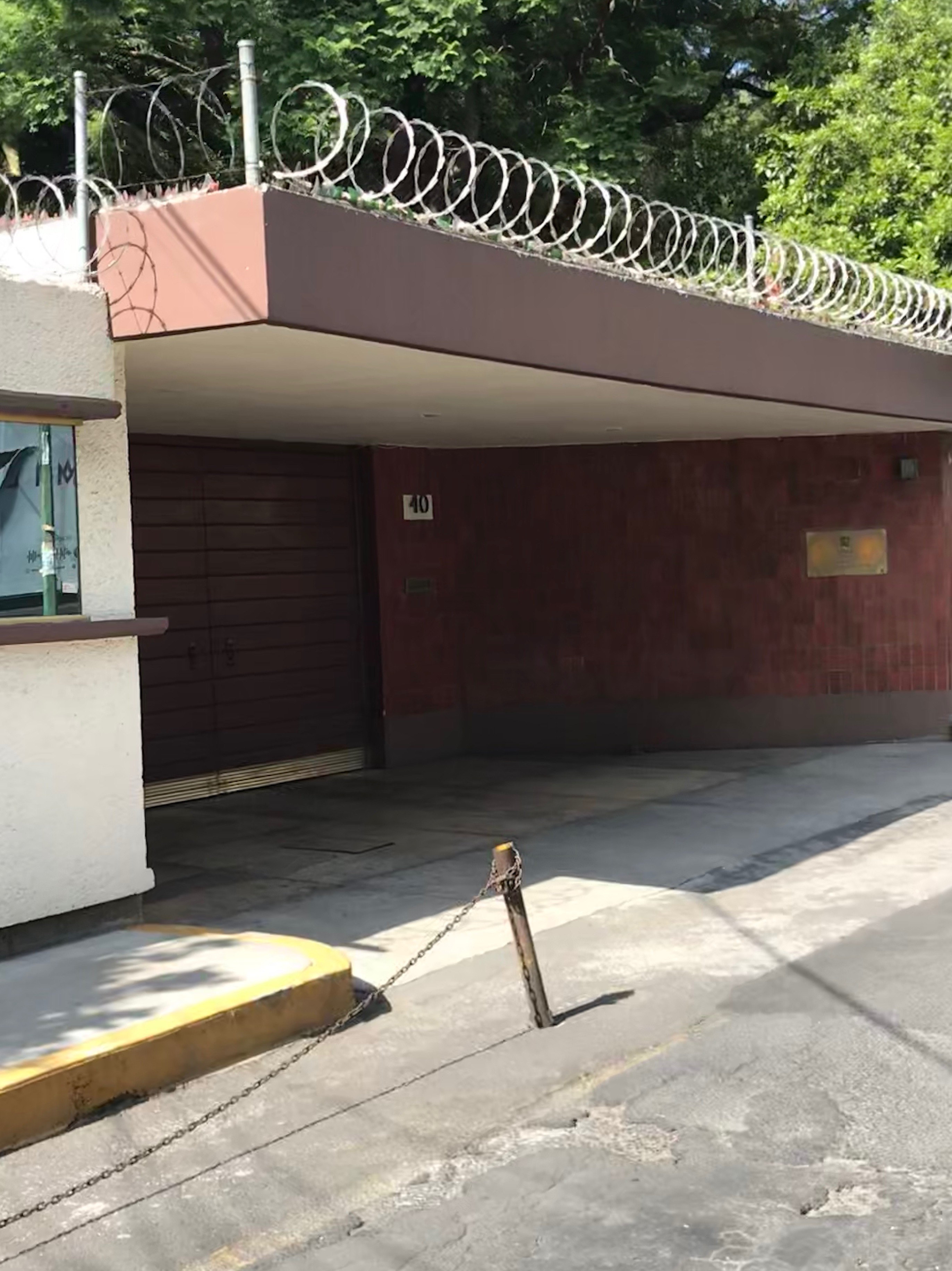 Embassy of Poland in Mexico City